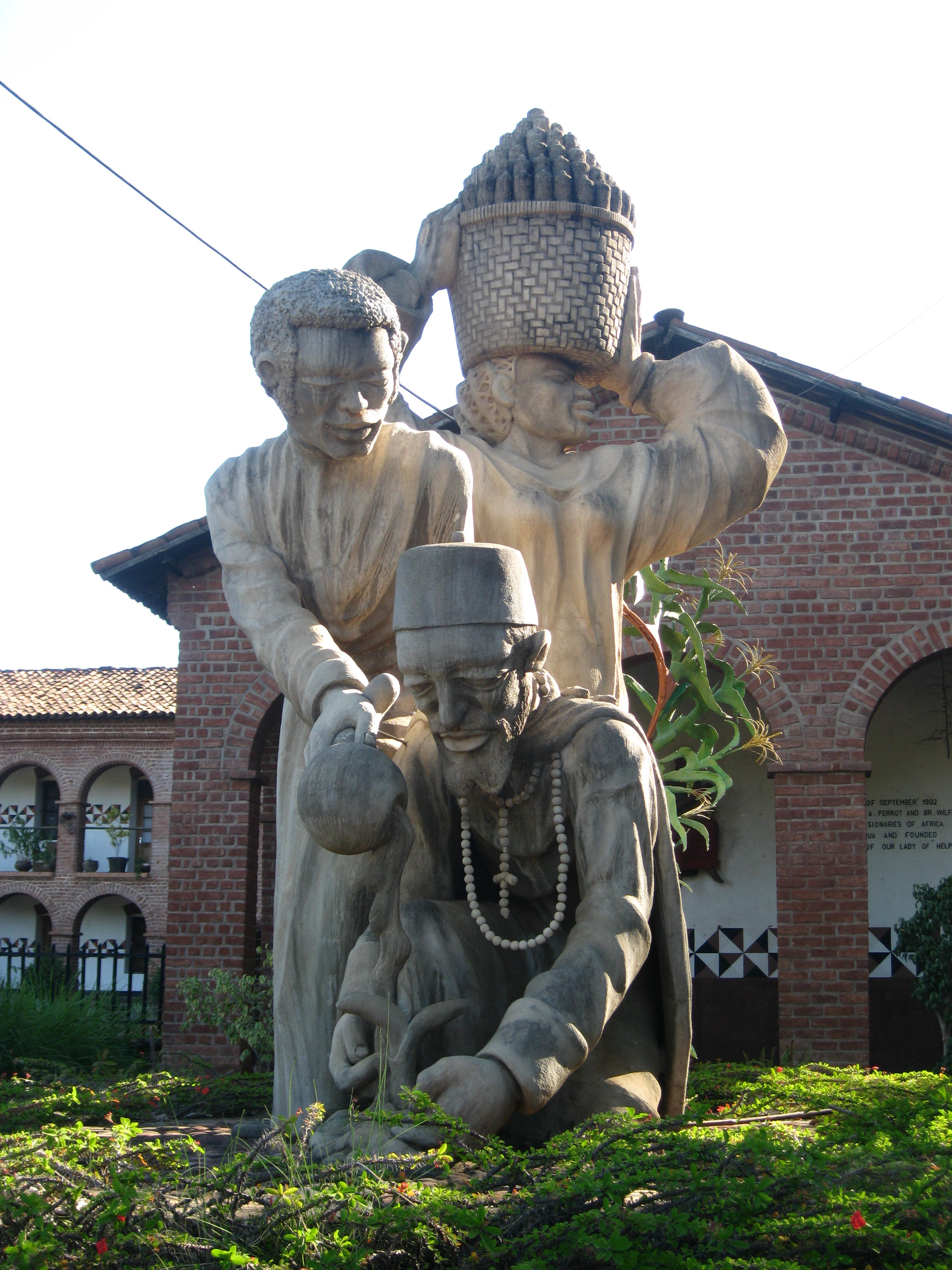 Sculpture in front of Mua Mission church